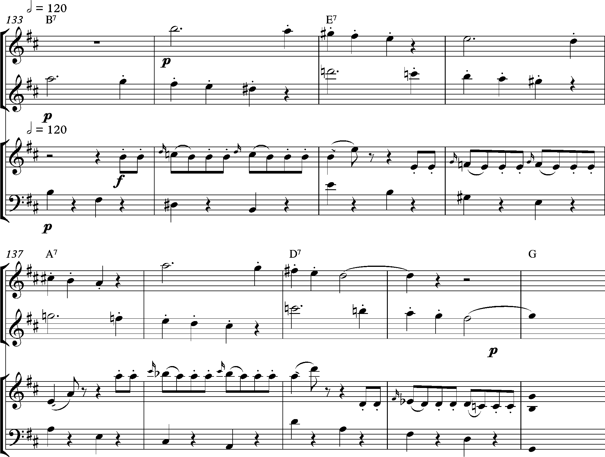 Don Giovanni Overture bars 133-141 reduced score